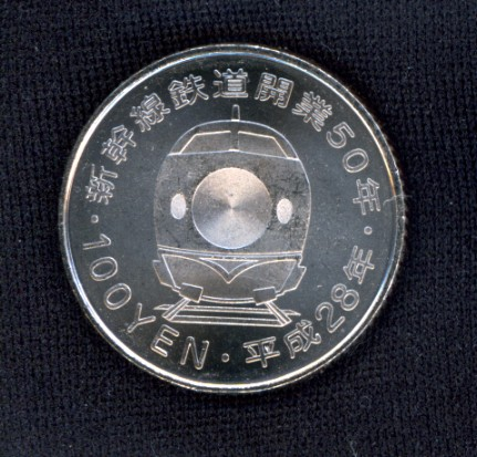 shinkansen 50 years anniversary commemorative 100 yen clad coin of Japan, Back side